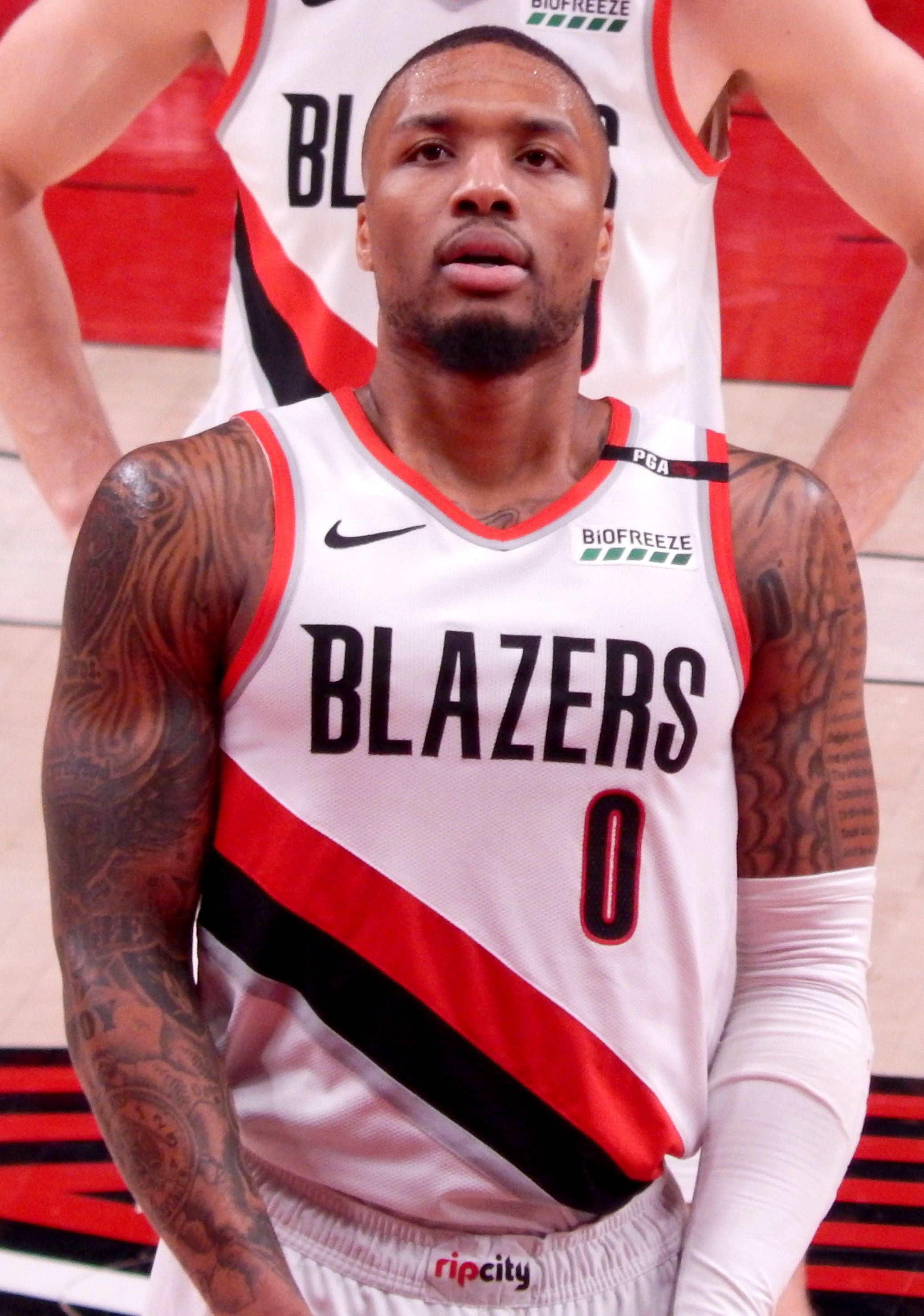 Damian Lillard #0 of the Portland Trail Blazers against the Cleveland Cavaliers on January 16, 2019 at Moda Center in Portland, Oregon.